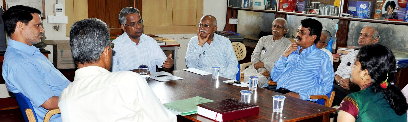 Purushothama Bilimale